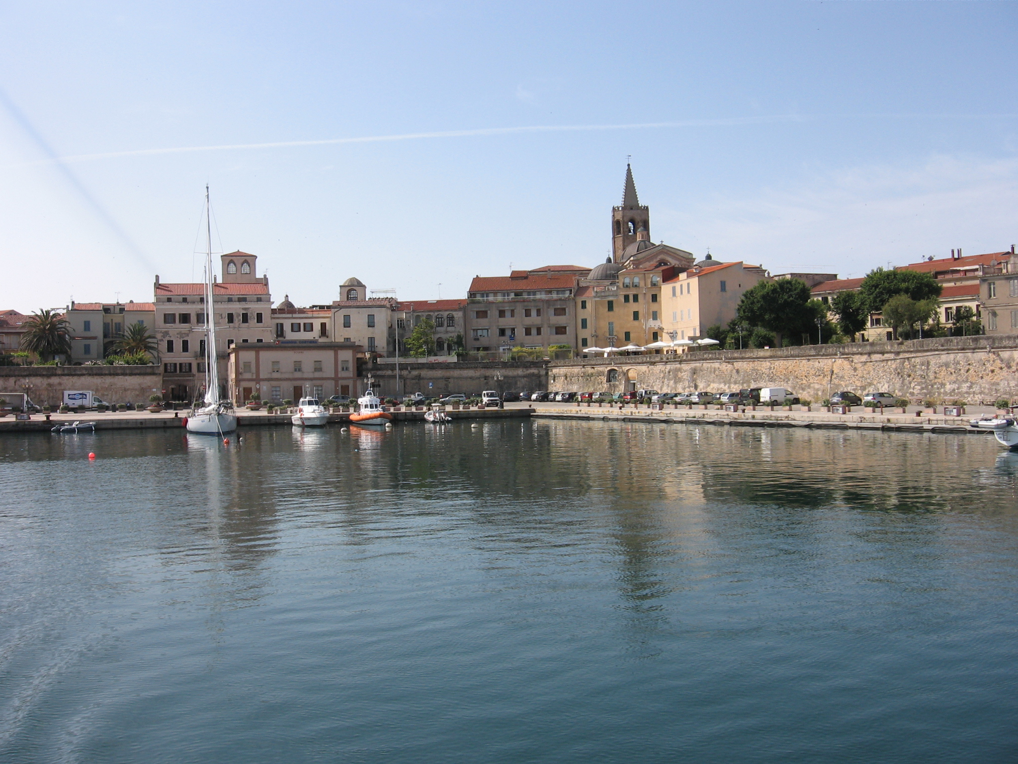 Alghero